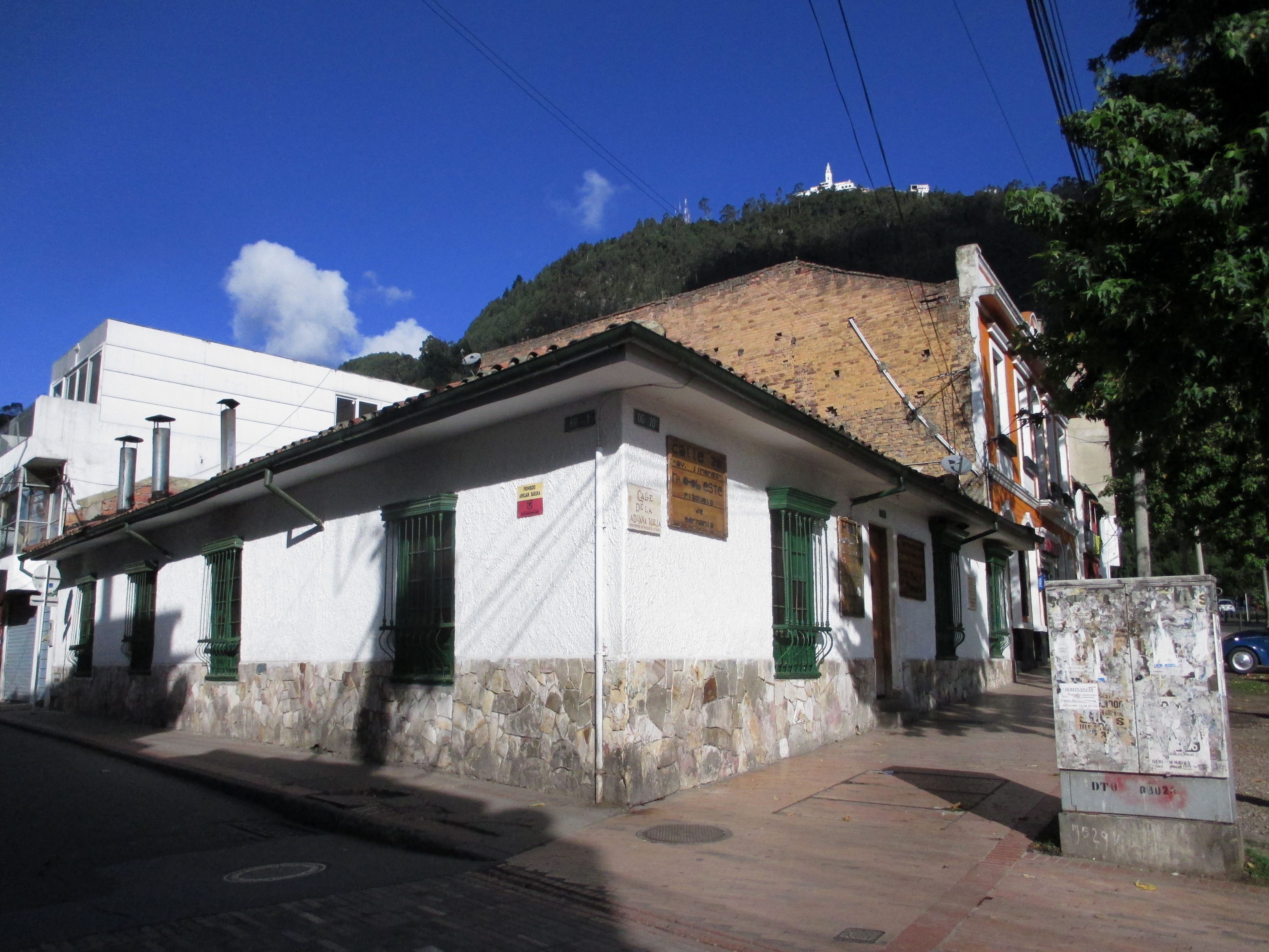 Bogotá